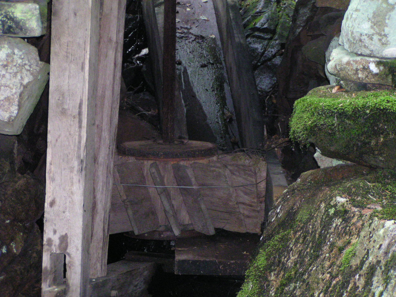 Water wheel (smple turbine) for water mill, Halmstad Municipality, Sweden.